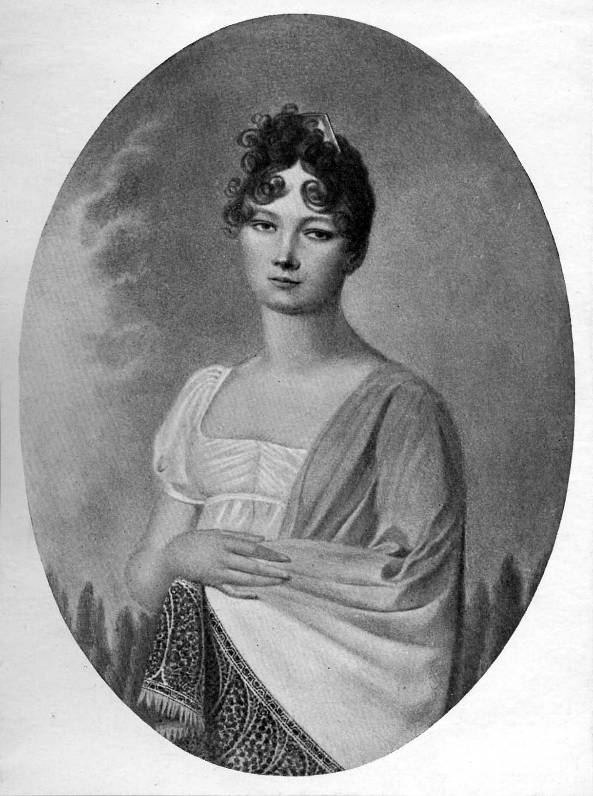 Princess Wilhelmine of Baden (1788-1836)